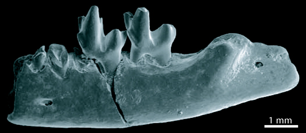 Buccal view of DPC 23783B, a left mandibular fragment of the afrosoricid placental Dilambdogale gheerbranti gen. et sp. nov., from the earliest late Eocene (earliest Priabonian) locality BQ-2, Birket Qarun Formation, Fayum Depression, northern Egypt, preserving m2–3.